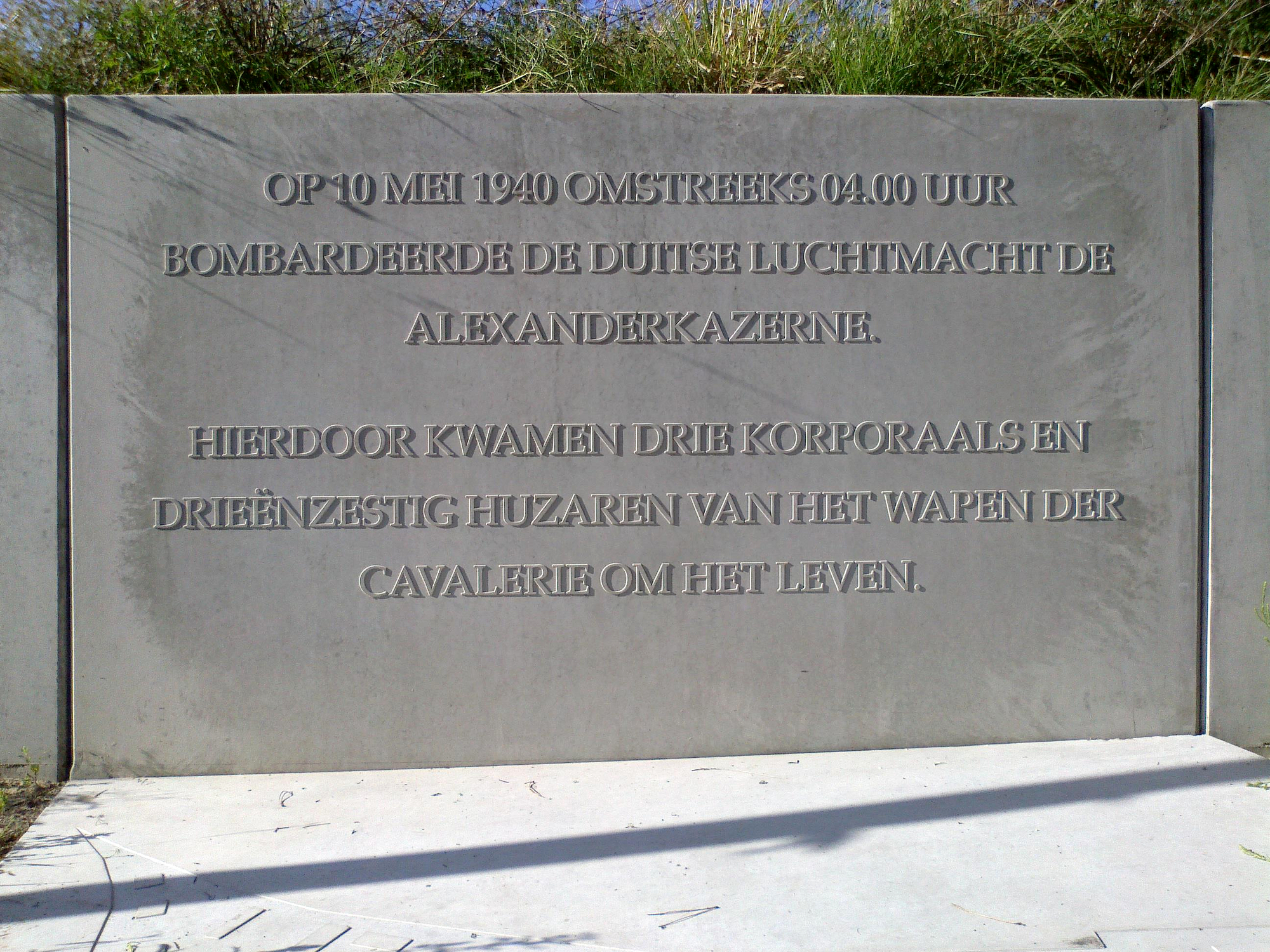 On May 10, 1940 around 04:00 in the morning, the German air force bombed the Prince Alexander Military Barracks in The Hague, the Netherlands. As a result, 66 hussars of the Cavalry where killed. In addition to the dead over 150 soldiers and officers where injured. Many where severely mutilated, suffering from burns, and some having lost their arm(s) and/or leg(s). The soldiers where mostly reservists, mobilized on account of the imminent German military threat. Also more than 100 horses beloning to the cavalry where killed as a result of the bombardment. Many of them where severly injured and had to be killed by veterinarians. It was reported that the sound of their screams from under the rubbles, lasting for hours, contributed to the overall horror of the survivors.